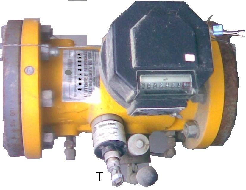 A wheel gas meter